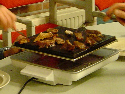 A "steengrill" (litterly translated as "stone grill")